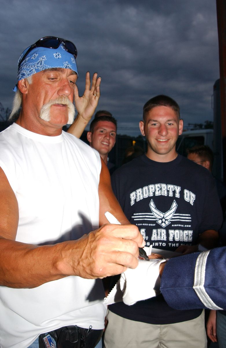 Professional wrestling legend Hulk Hogan signs autographs for US Air Force (USAF) personnel of the 509th Bomb Wing (BW), Whiteman Air Force Base (AFB), Missouri (MO), at the 9th Annual Red, White, and Boom Concert in Kansas City hosted by radio station Mix 93.3. The audience and entertainers paid tribute to the USAF personnel of the armed forces during Military Appreciation Day.